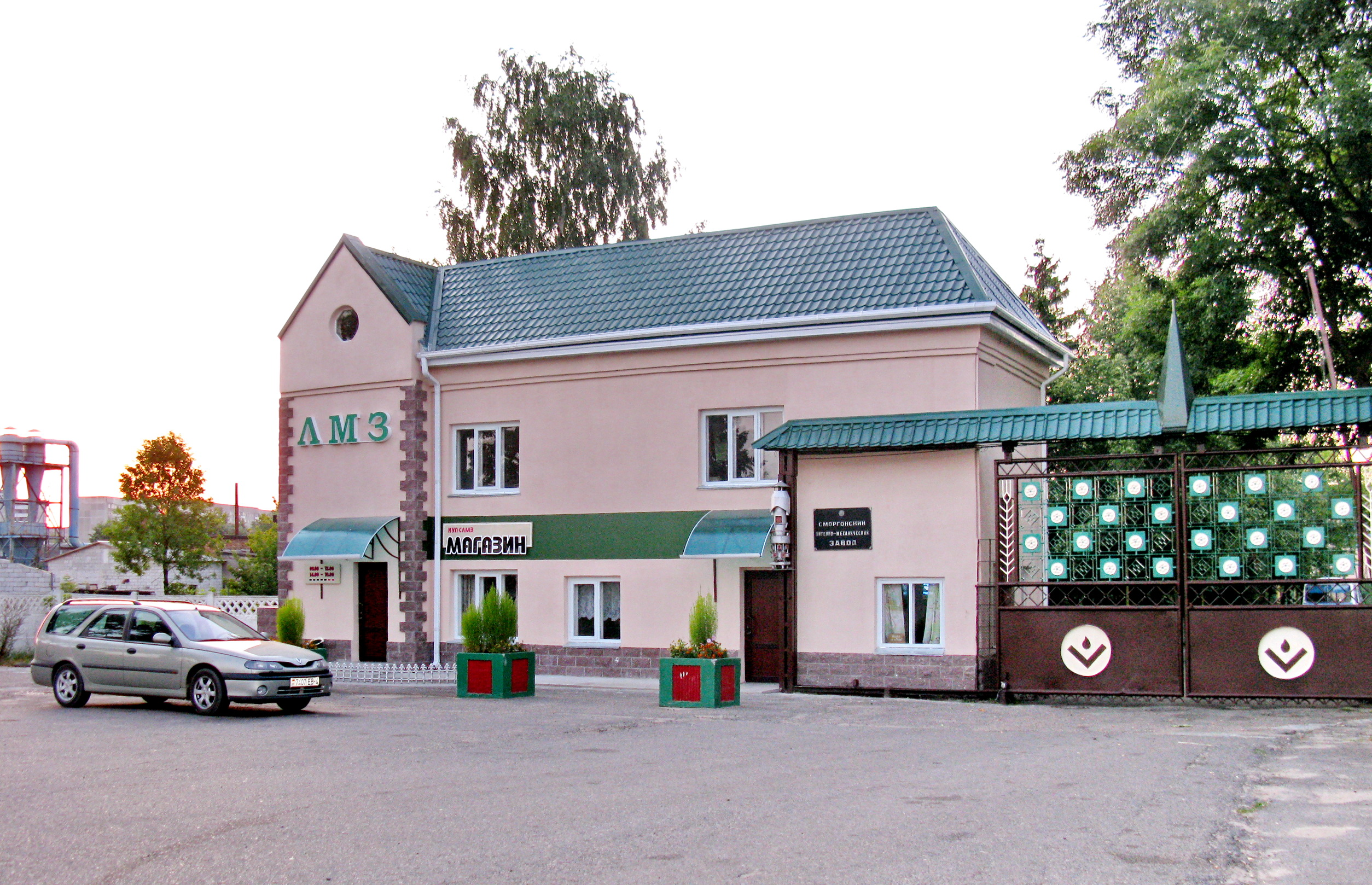 Smarhon' Mechanical Foundry